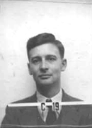 Ernest W. Titterton Los Alamos wartime security badge.